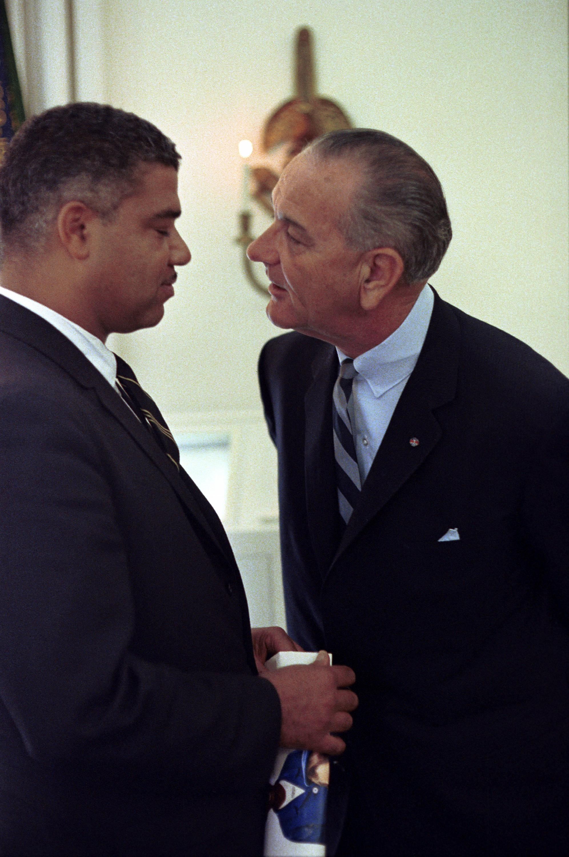 President Lyndon B. Johnson meeting with Civil Rights leader Whitney Young